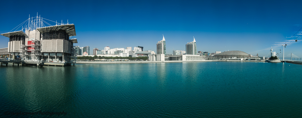 Lisbon - Expo (pano) #4